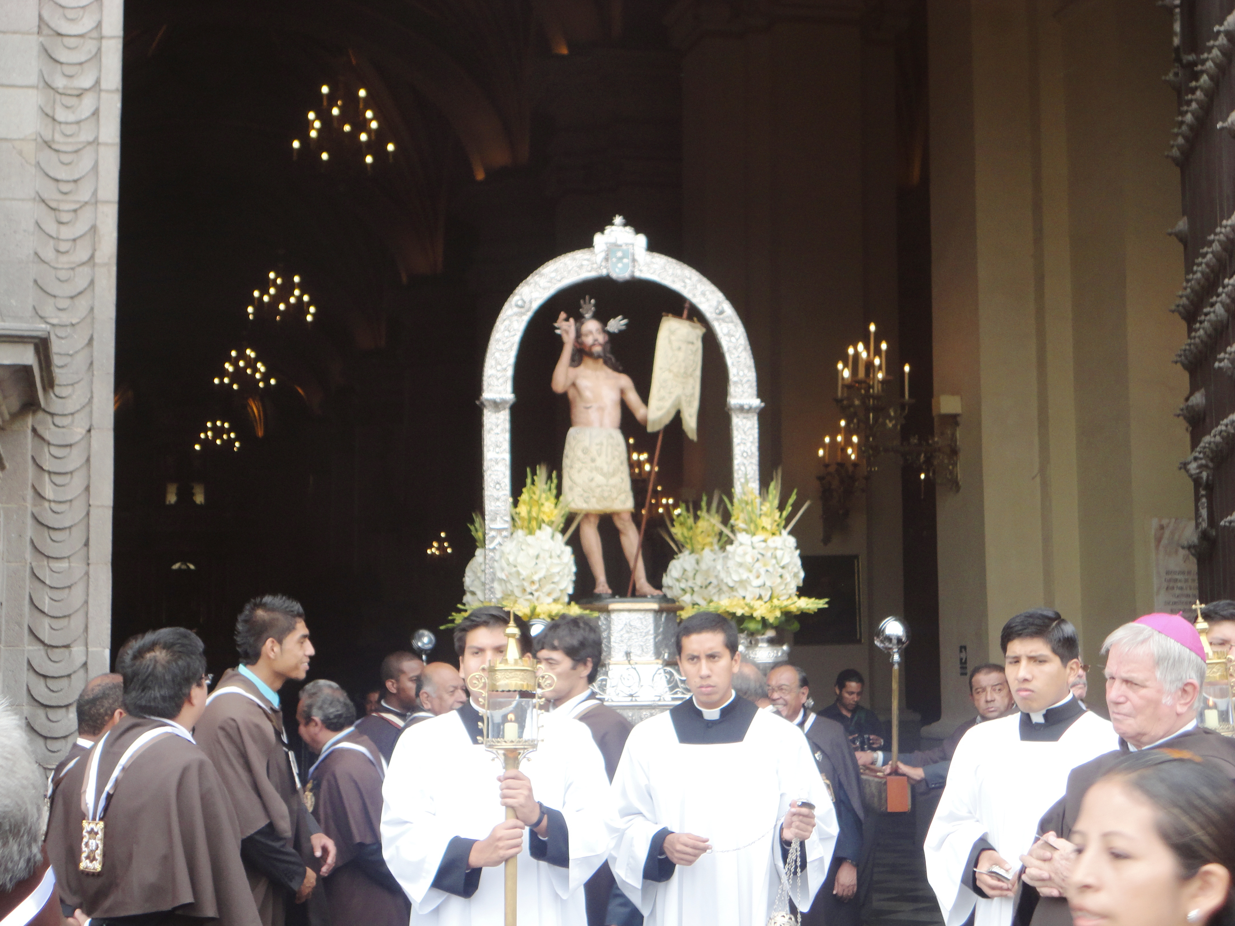 Resurrection of Christ, Holy Week 2012, Cathedral of Lima, Peru.